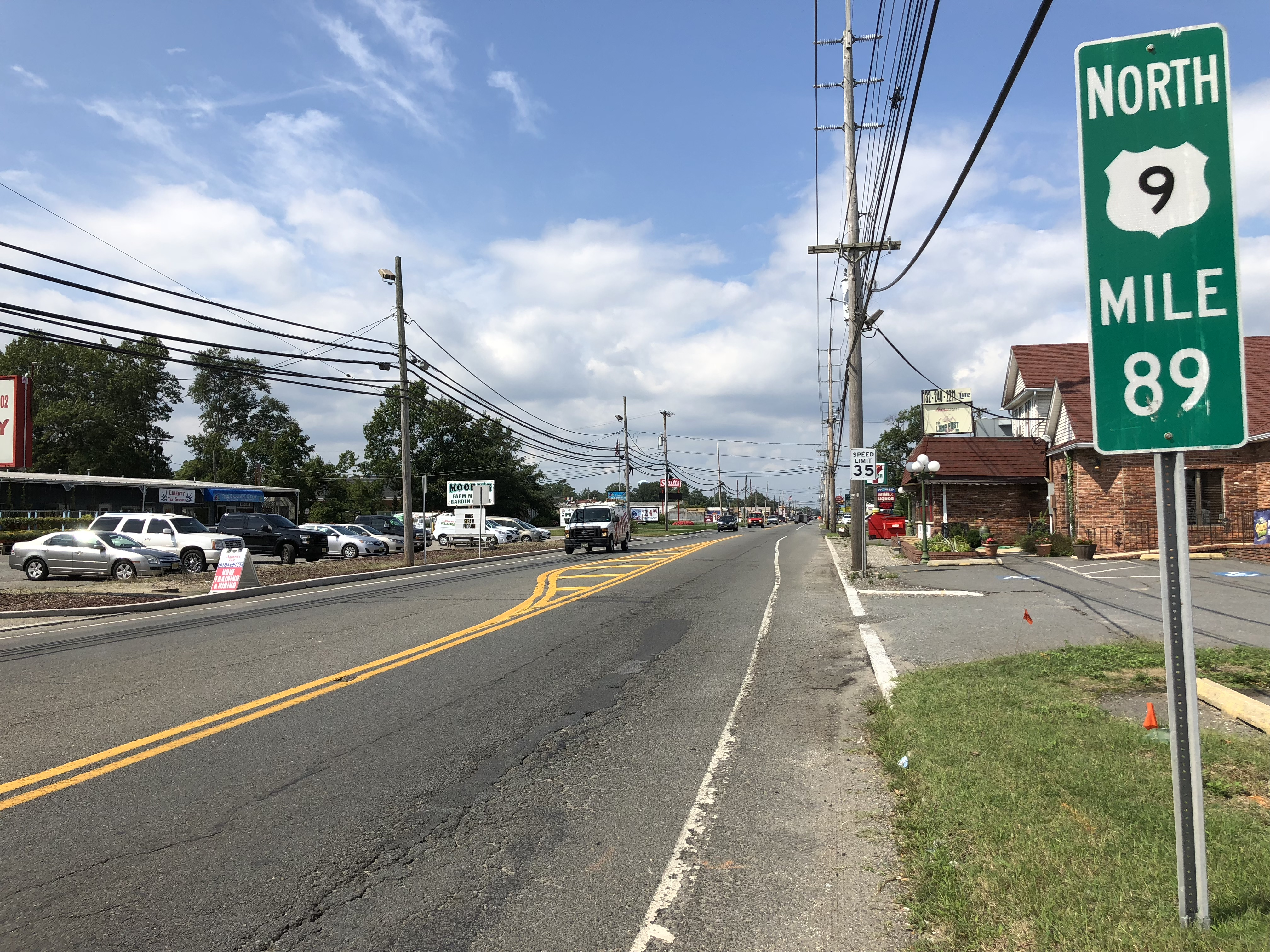 View north along U.S. Route 9 (Atlantic City Boulevard) just north of Motor Road and Gladney Avenue along the border of Berkeley Township and Pine Beach in Ocean County, New Jersey